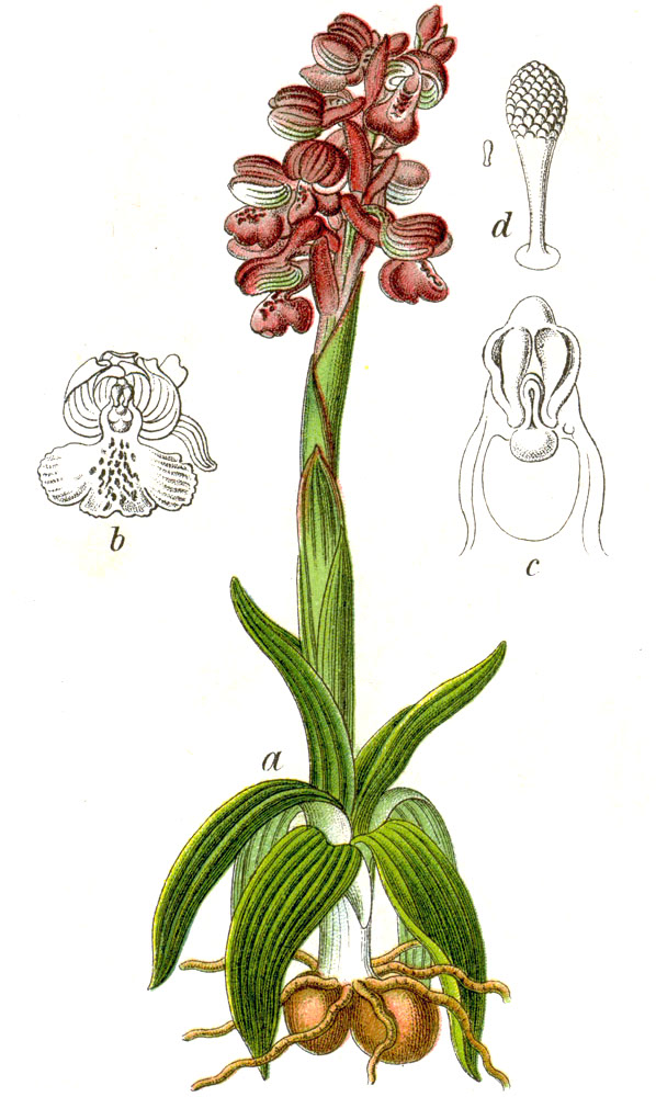 Kleine Orchis, Anacamptis morio (L.) R.M.Bateman, Pridgeon & M.W.Chase, syn. Orchis morio L. (nom. ambig.) Original Caption Kleine Orchis, Orchis morio